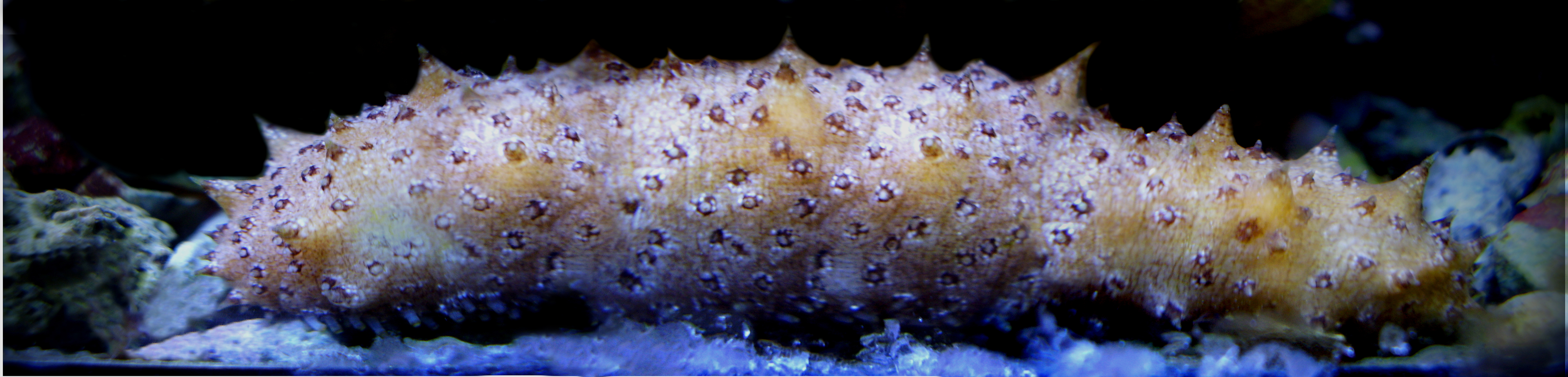 A sea cucumber (Thymiosycia hilla Syn. Holothuria hilla) in an aquarium. Thymiosycia hilla = Syn. Holothuria hilla. World Register of Marine Species link: Thymiosycia Invalid World Register of Marine Species link: Holothuria Linnaeus, 1767 (+ list genus + list species) NCBI link: Holothuria hilla